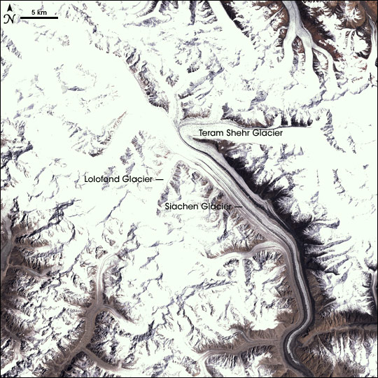 Satellite view of the Siachen Glacier, Kashmir. Image obtained by the Landsat 7 Enhanced Thematic Mapper Plus Instrument